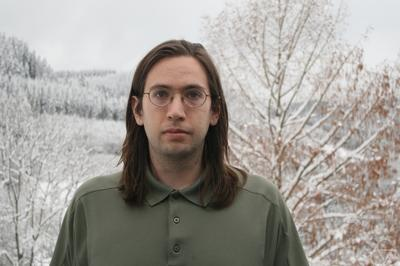 Description at MFO: On the Photo: Pixton, Aaron — Occasion:Moduli Spaces in Algebraic Geometry — Annotation: US Junior Oberwolfach Fellow — Location: Oberwolfach — Author: Vetter, Ivonne — Source: MFO — Year: 2013 — Copyright: MFO — Photo ID: 17461